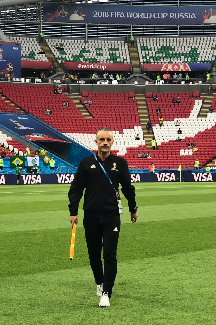 Pre-game field inspection by FIFA Assistant Referee Dalidor Djurdjevic